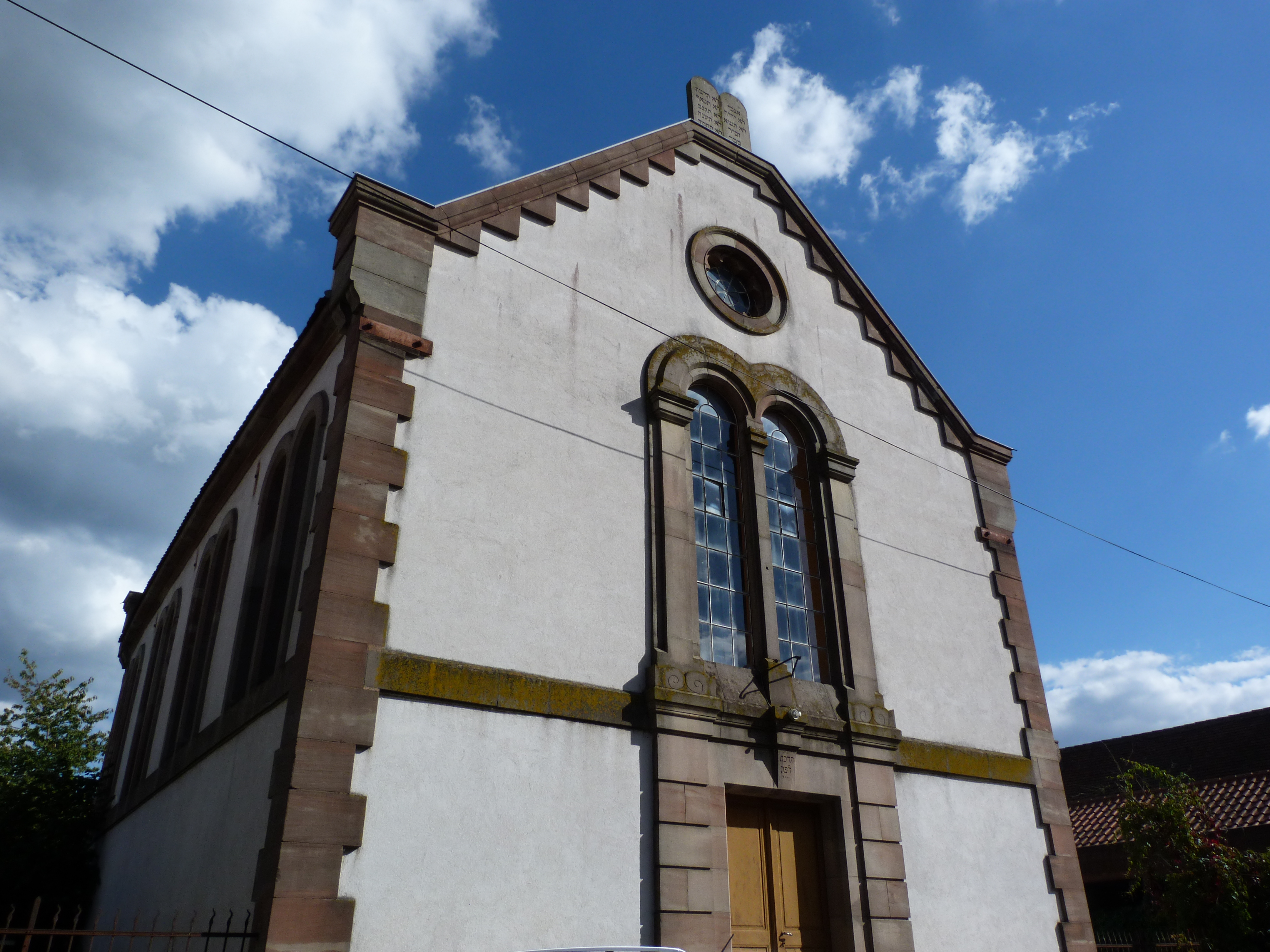 It is indexed in the Base Mérimée, a database of architectural heritage maintained by the French Ministry of Culture, under the references PA67000030 and IA67000704 .